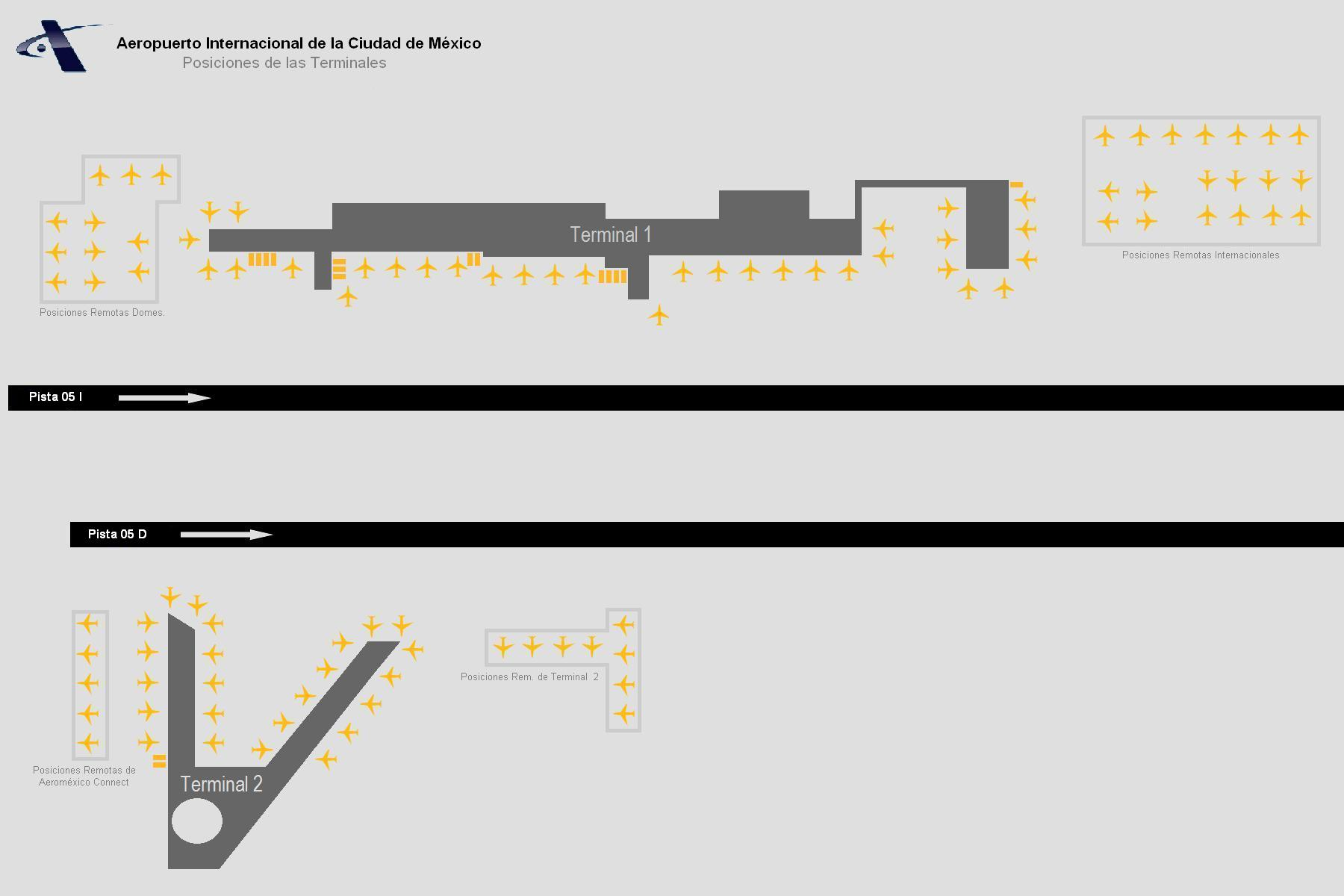 Diagram of the Commercial Area of MEX after construction of new T2. Not scale.